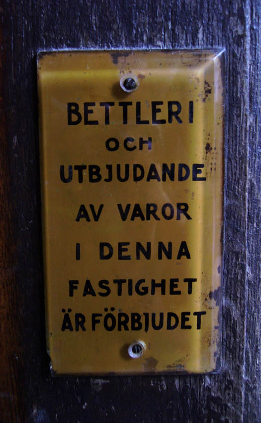 Sign prohibiting beggery.